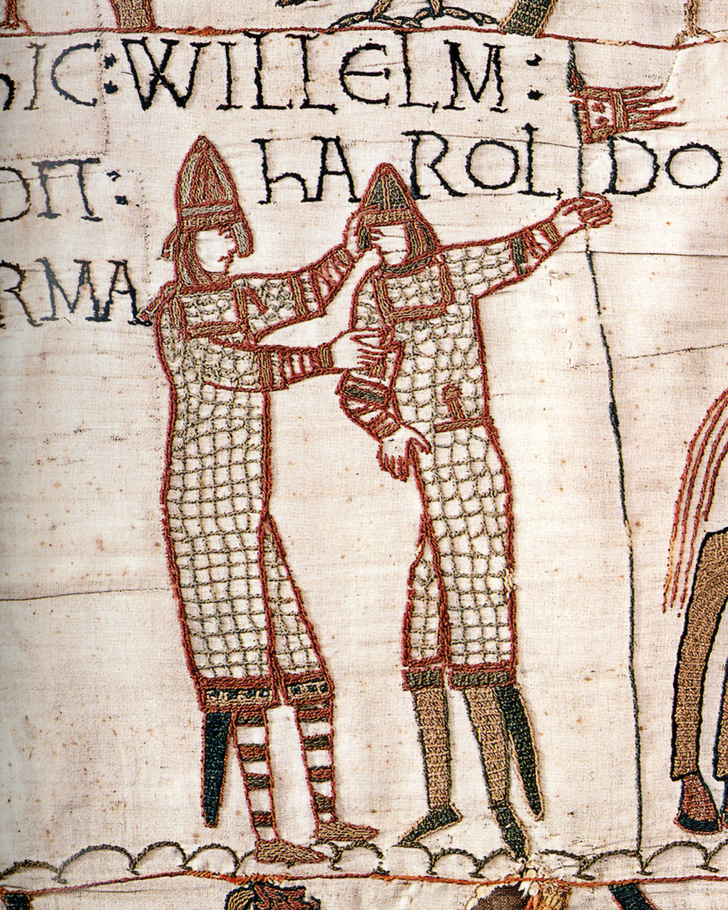 Panel from the Bayeux Tapestry - this one depicts Duke William giving arms to Earl Harold. Scanned from Lucien Musset's The Bayeux Tapestry ISBN 9781843831631 pp 142-143.